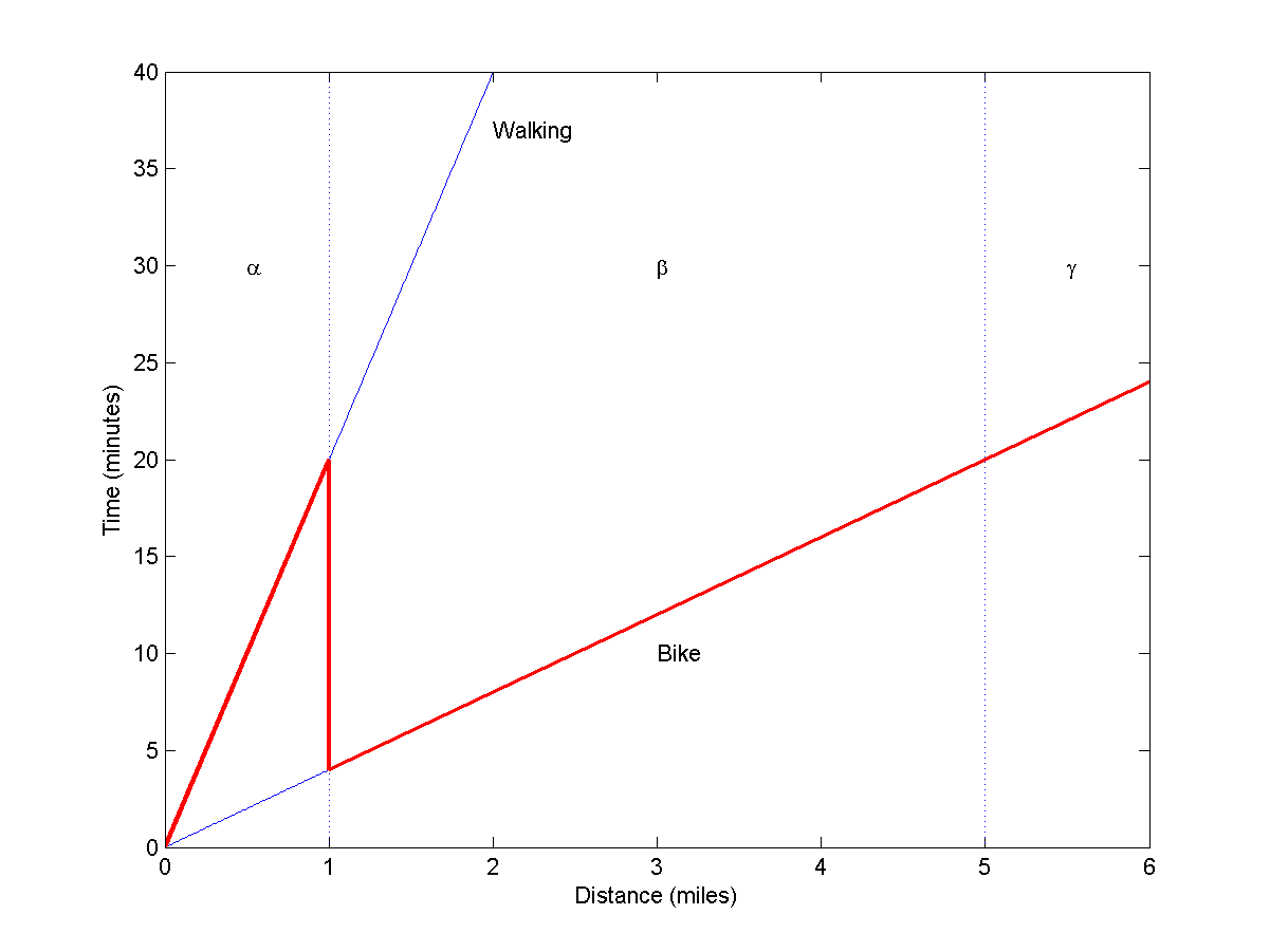 The region-beta paradox: a person prefers to walk (at 3 miles per hour) if distances are less than a mile, and to bike (15 miles per hour) for longer distances. Despite the remoteness of points in region beta, they will be reached faster than most points in the nearby region alpha. This was used by Gilbert et al. to illustrate the non-monotonic effect of psychological processes on speed of recovery from an aversive stimulus. Based on figure 1 in: Daniel T. Gilbert, Matthew D. Lieberman, Carey K. Morewedge, and Timothy D. Wilson. (2004). The Peculiar Longevity of Things Not So Bad. Psychological Science. Vil 15:1, pp. 14-19